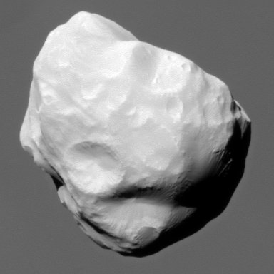 A photo taken by the Cassini spacecraft showing Saturn's moon Helene with the atmosphere of the planet in the background. The image was taken in visible light with the Cassini spacecraft narrow-angle camera. The view was acquired at a distance of approximately 19,000 kilometers (12,000 miles) from Helene.